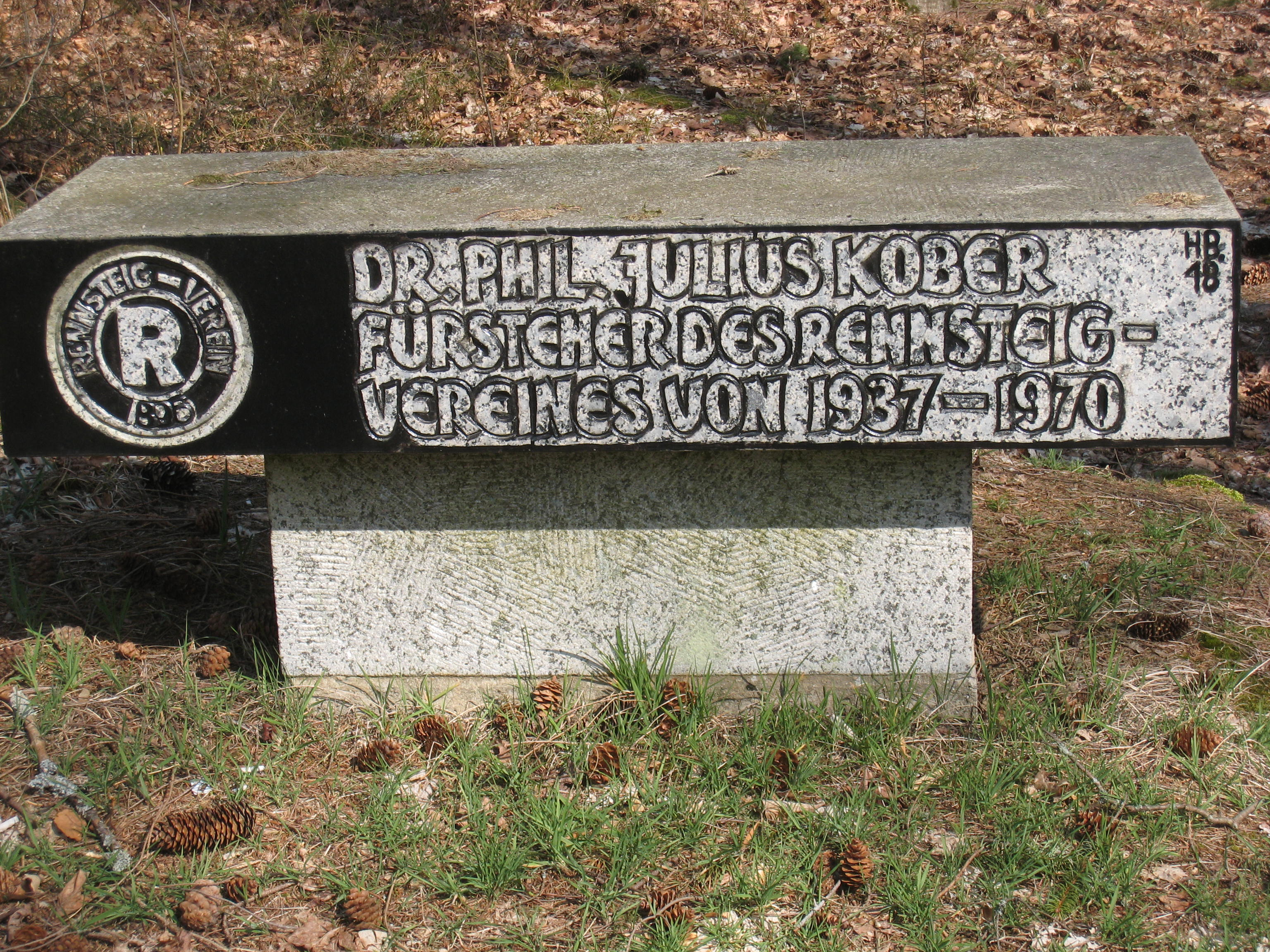 Julius Kober memorial Steinbach am Wald